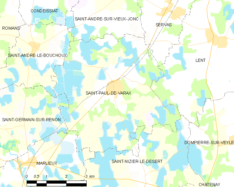 Map of French commune: Saint-Paul-de-Varax Map commune FR insee code 01383.png